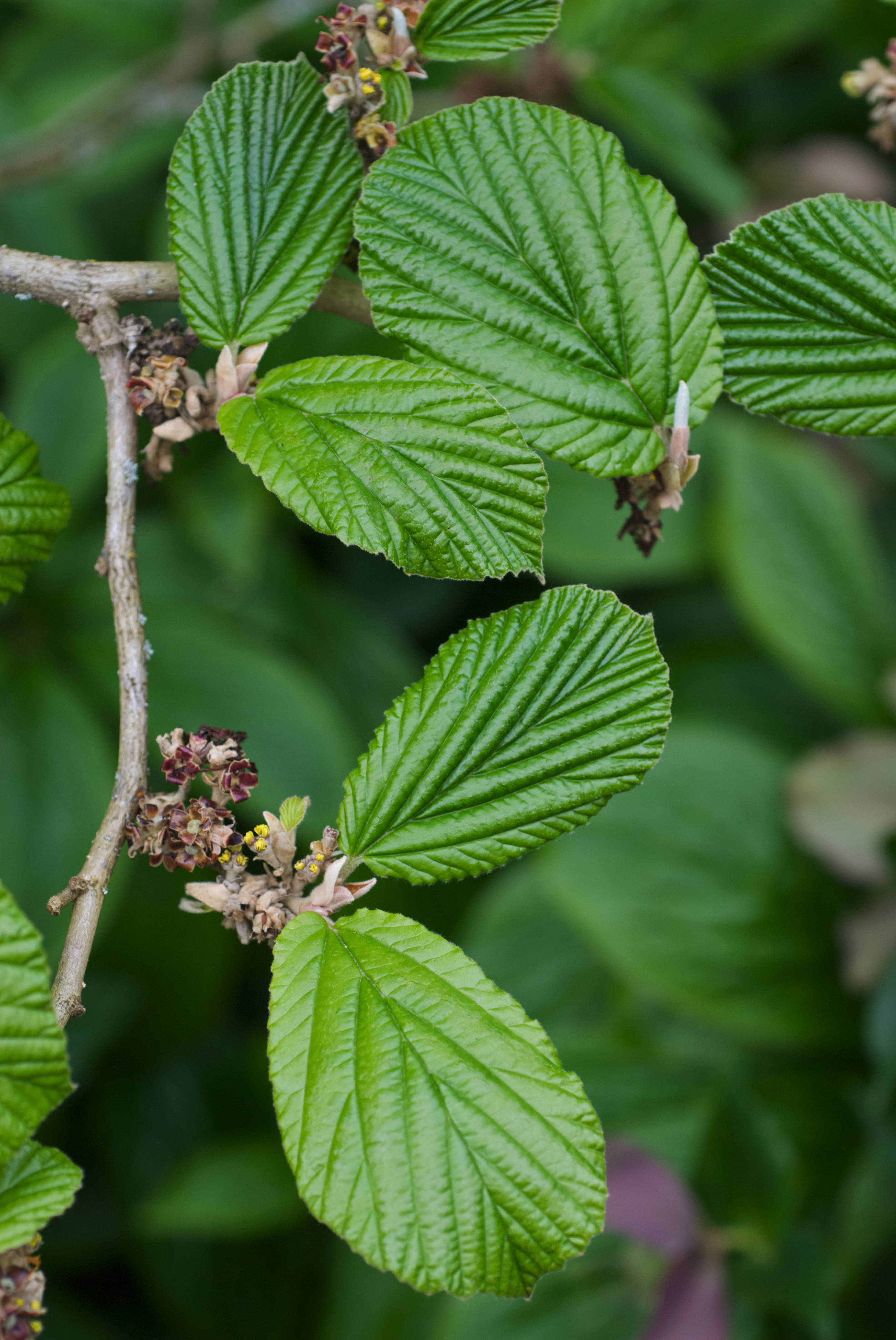 Common name: Vernal Witch-hazel, Ozark Witch-hazel Species from Missouri, Louisiana, Texas, Oklahoma Photographed in Washington Park Arboretum